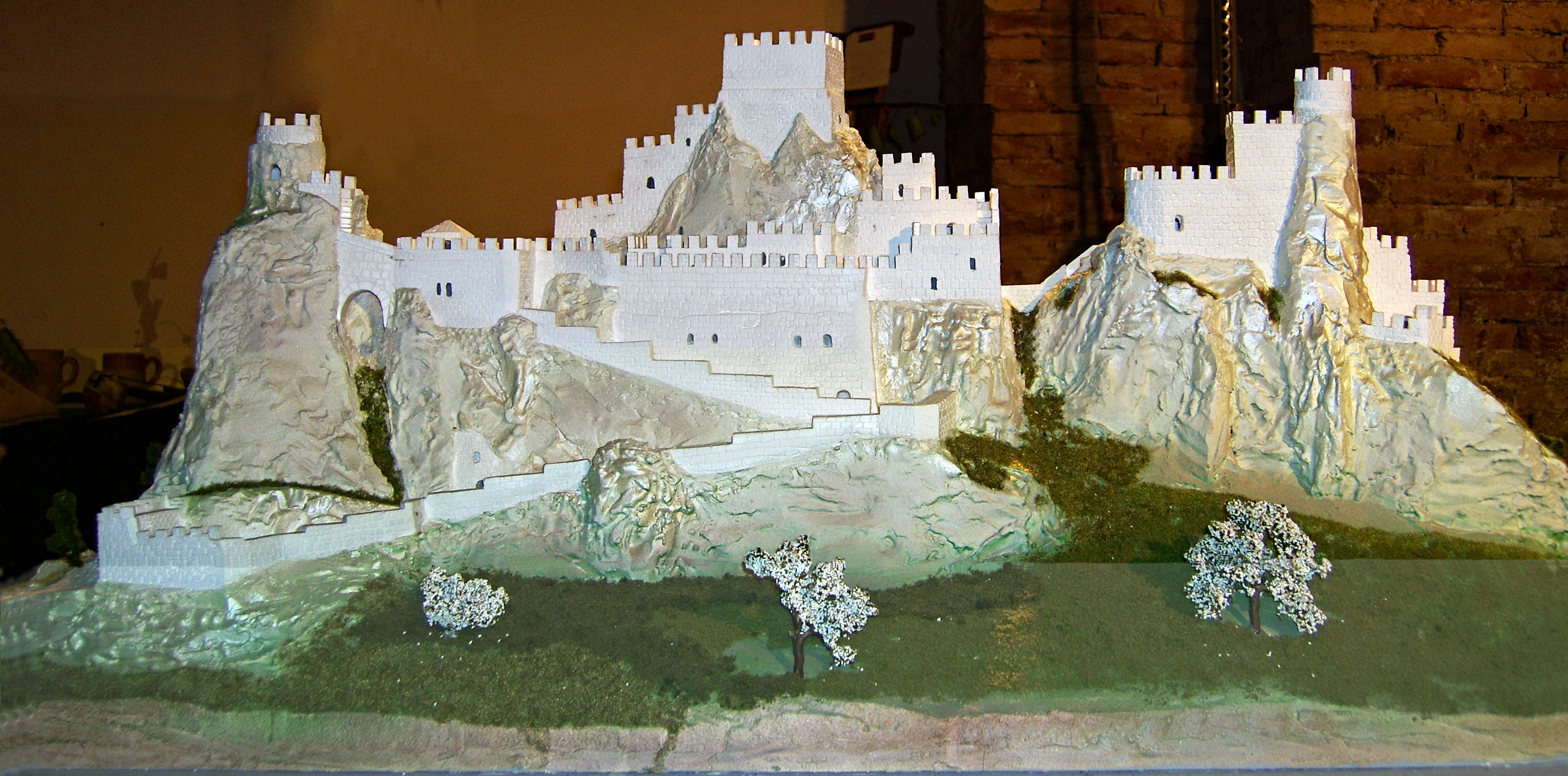 Pietrarossa Castle in Caltanissetta plastic stored in Seville Spain